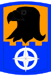 244th Aviation Brigade